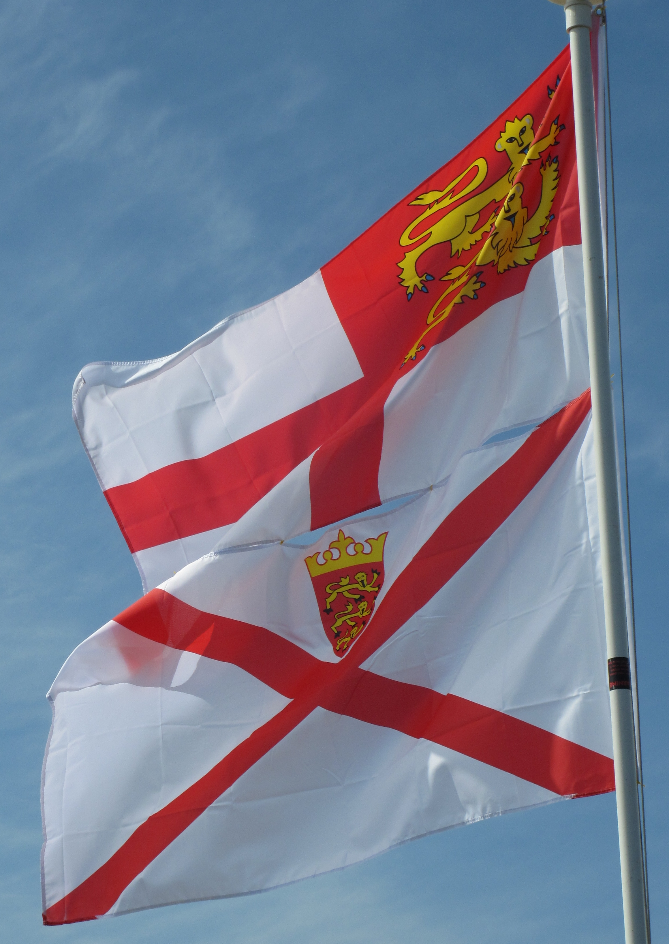 Sark Folk Festival, Sark, 3 July 2010